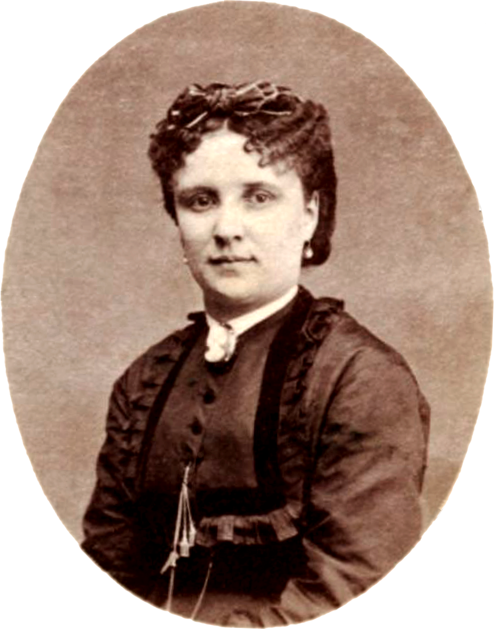 Photograph of Anna Dartaux (1844–1887), French operetta singer.